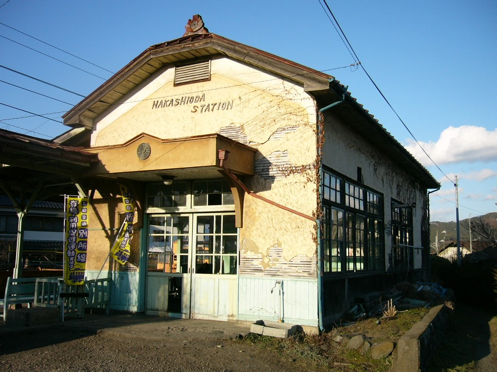 Frontview of Nakashioda station of Ueda electric railway, Ueda city Nagano prefecture Japan.